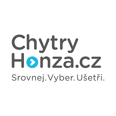 Logo ChytryHonza.cz